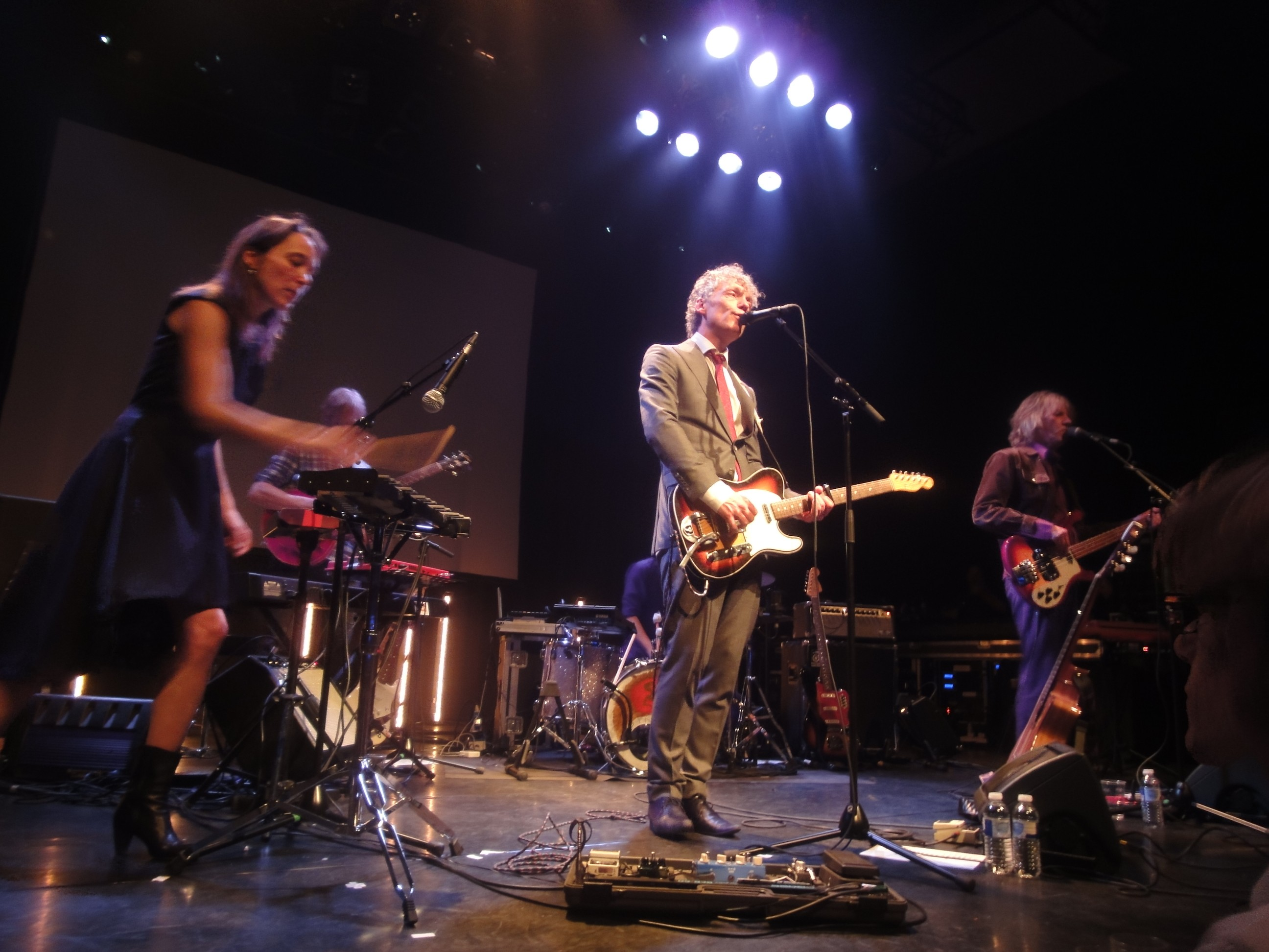 Spinvis in concert at "Paard van Troje" in The Hague Personality rights warning Although this work is freely licensed or in the public domain, the person(s) shown may have rights that legally restrict certain re-uses unless those depicted consent to such uses. In these cases, a model release or other evidence of consent could protect you from infringement claims.